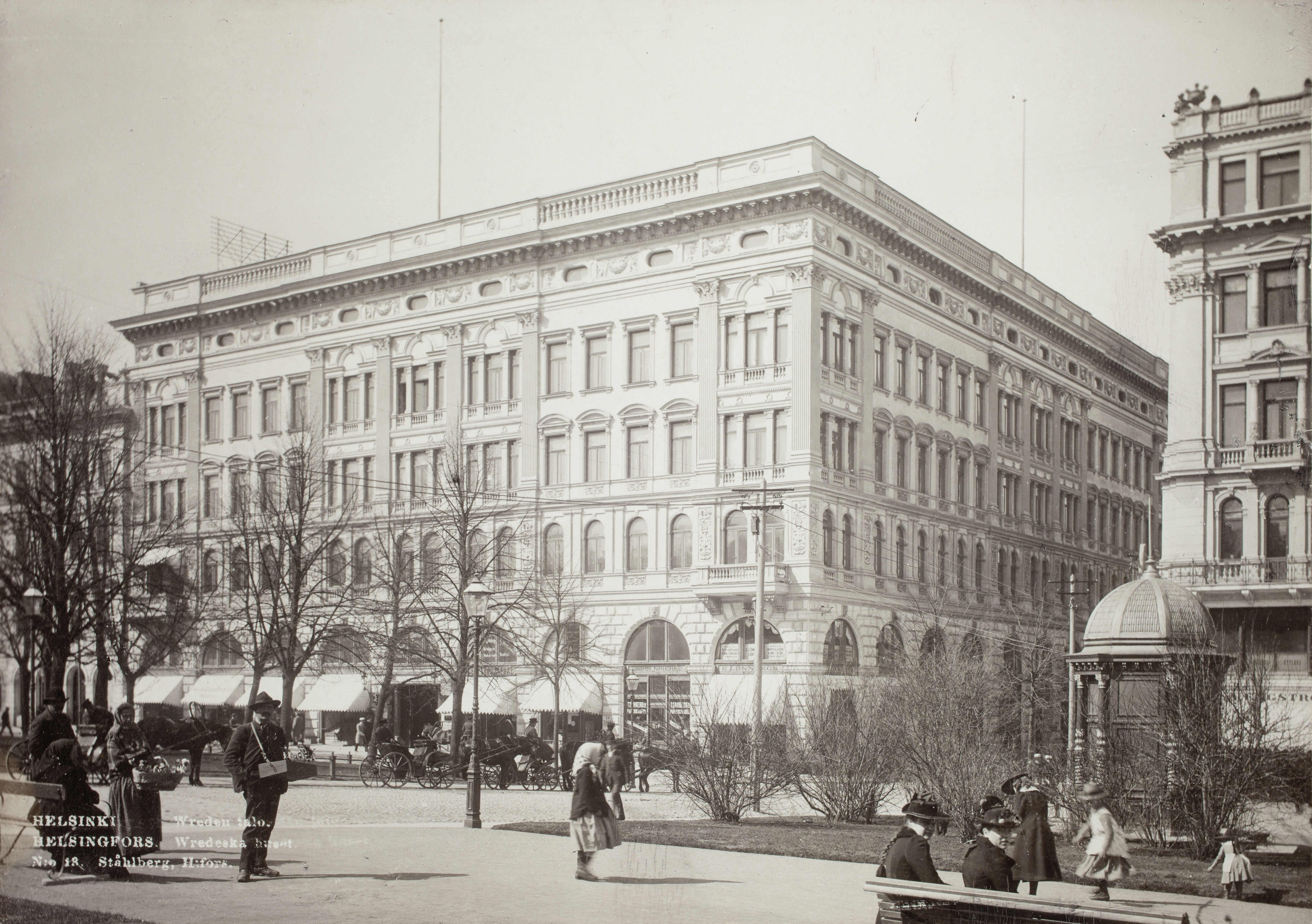 Wredeska huset på Esplanaden i Helsingfors (17x12 cm) på kartong Foto: Atelier K. E. Ståhlberg Helsingfors, Finland Svenska litteratursällskapet i Finland